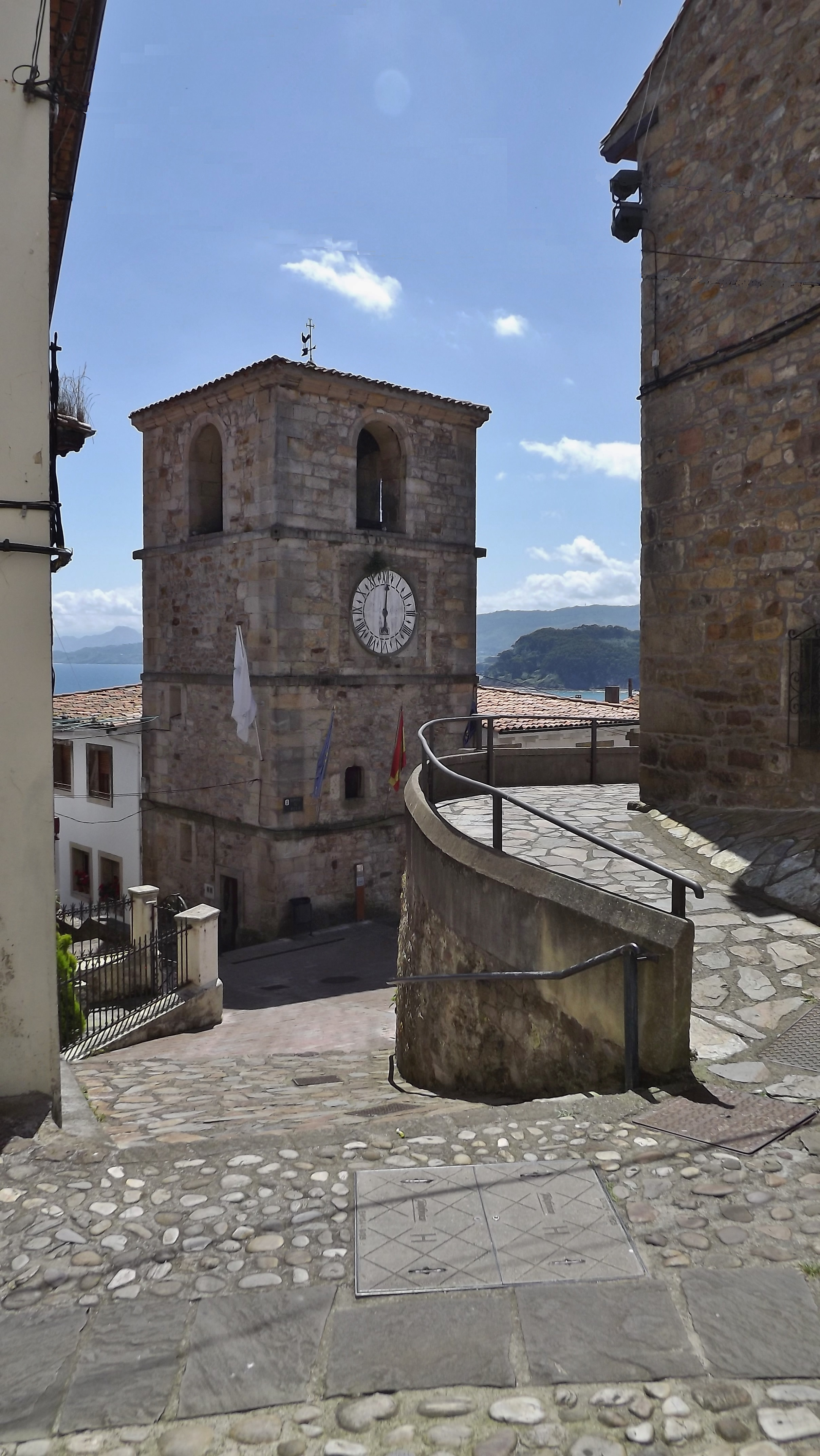 Lastres.